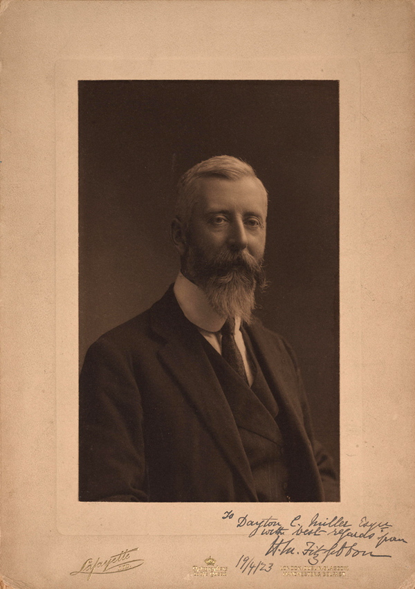 The portrait of Irish legal professional, music historian and author Henry Macaulay FitzGibbon (1855—1942), signed to Dayton C. Miller. Original in Dayton C. Miller Flute Collection, Music Division, Library of Congress.